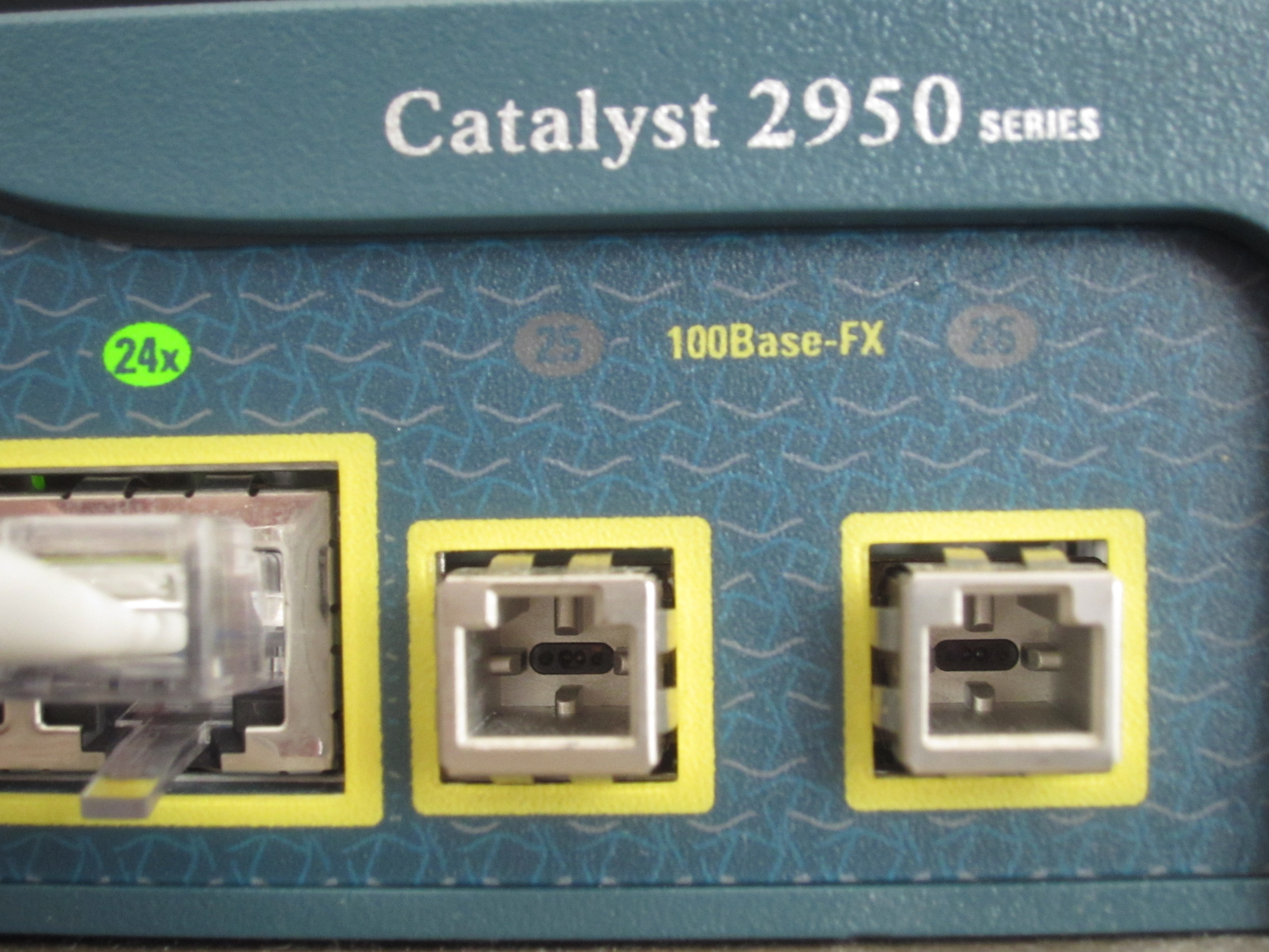 details of 100Base FX ports on a Cisco catalyst 2950 switch